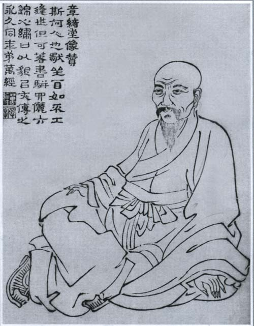 Zhang Zaogong